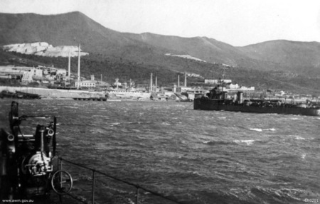 A British destroyer seen from HMAS Torrens, which, together with HMS Liverpool and HMAS Yarra, was visiting the ports of Batum and Novorossiysk on the Black Sea. Formerly a Russian port, Batum was captured by the Turks during the First World War. Upon the surrender of Turkey, the port was evacuated, and was immediately occupied by the British. In October 1918 the six Australian destroyers finished patrolling the Adriatic Sea and went east with other Allied ships in response to a possible threat from Russian ships that had been given to the Germans. After patrols off the Turkish coast, HMAS Torrens and HMAS Yarra were sent to the Black Sea.